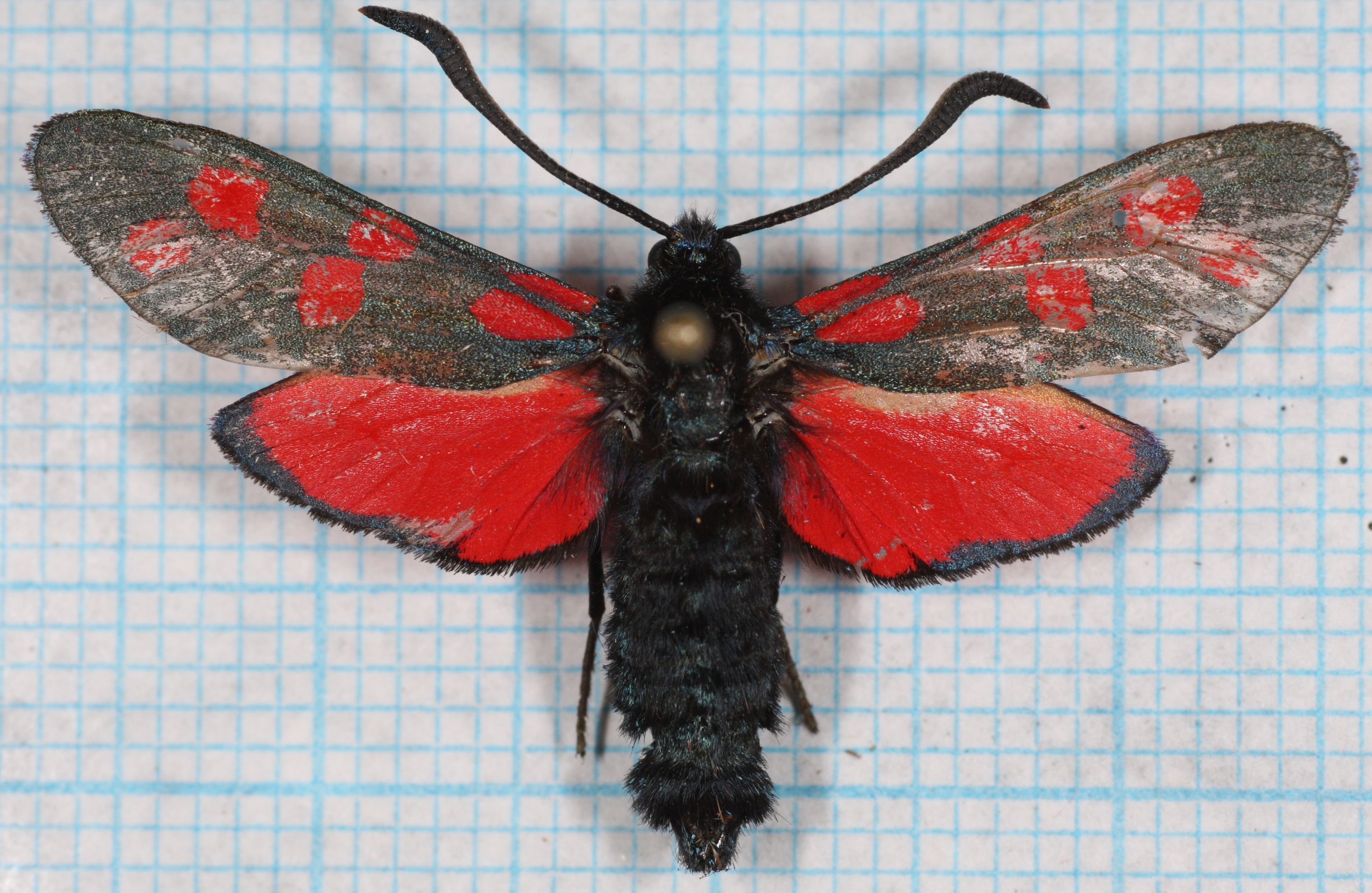 Six-spot Burnet Zygaena filipendulae